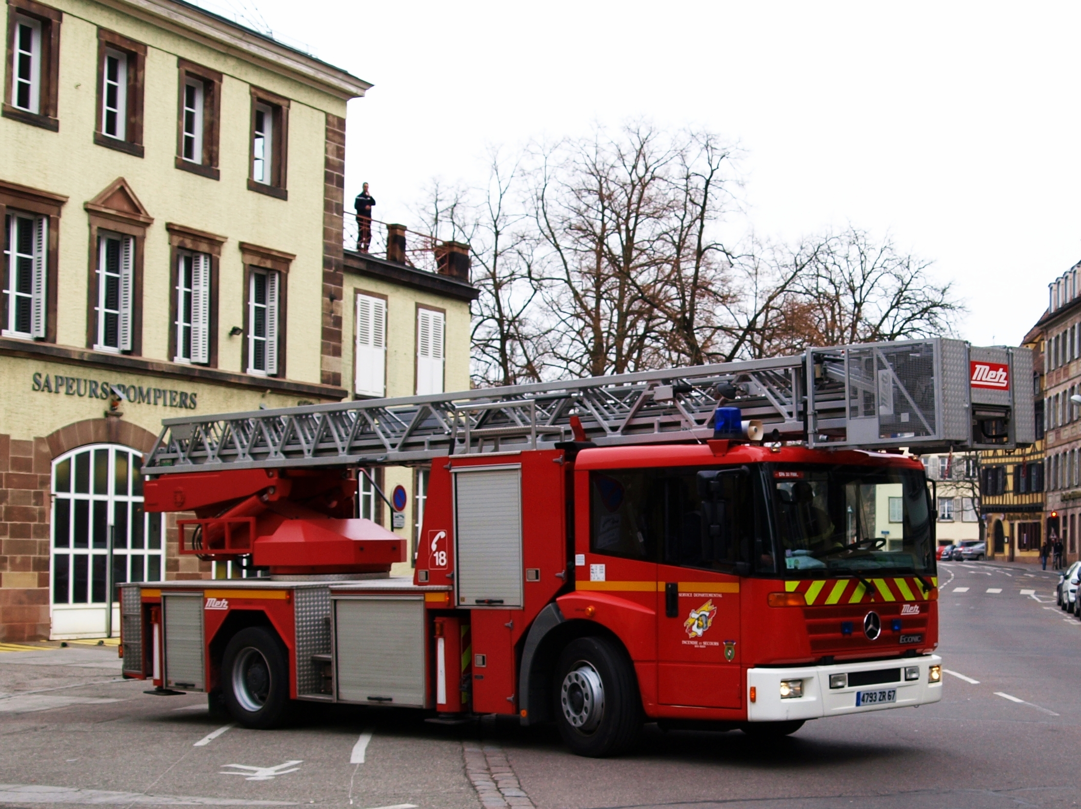 Mercedes, Service Departemental Incendie et Secours Bas-Rhin